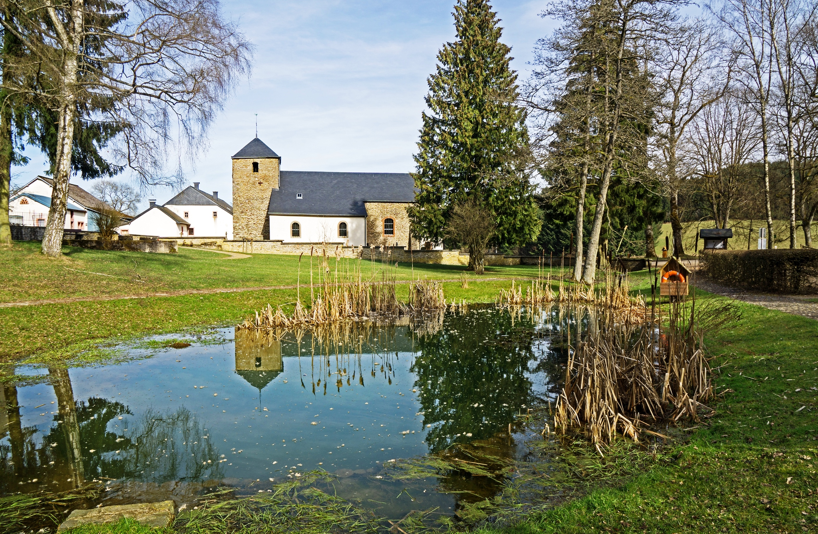 Church and pond in Rindschleiden